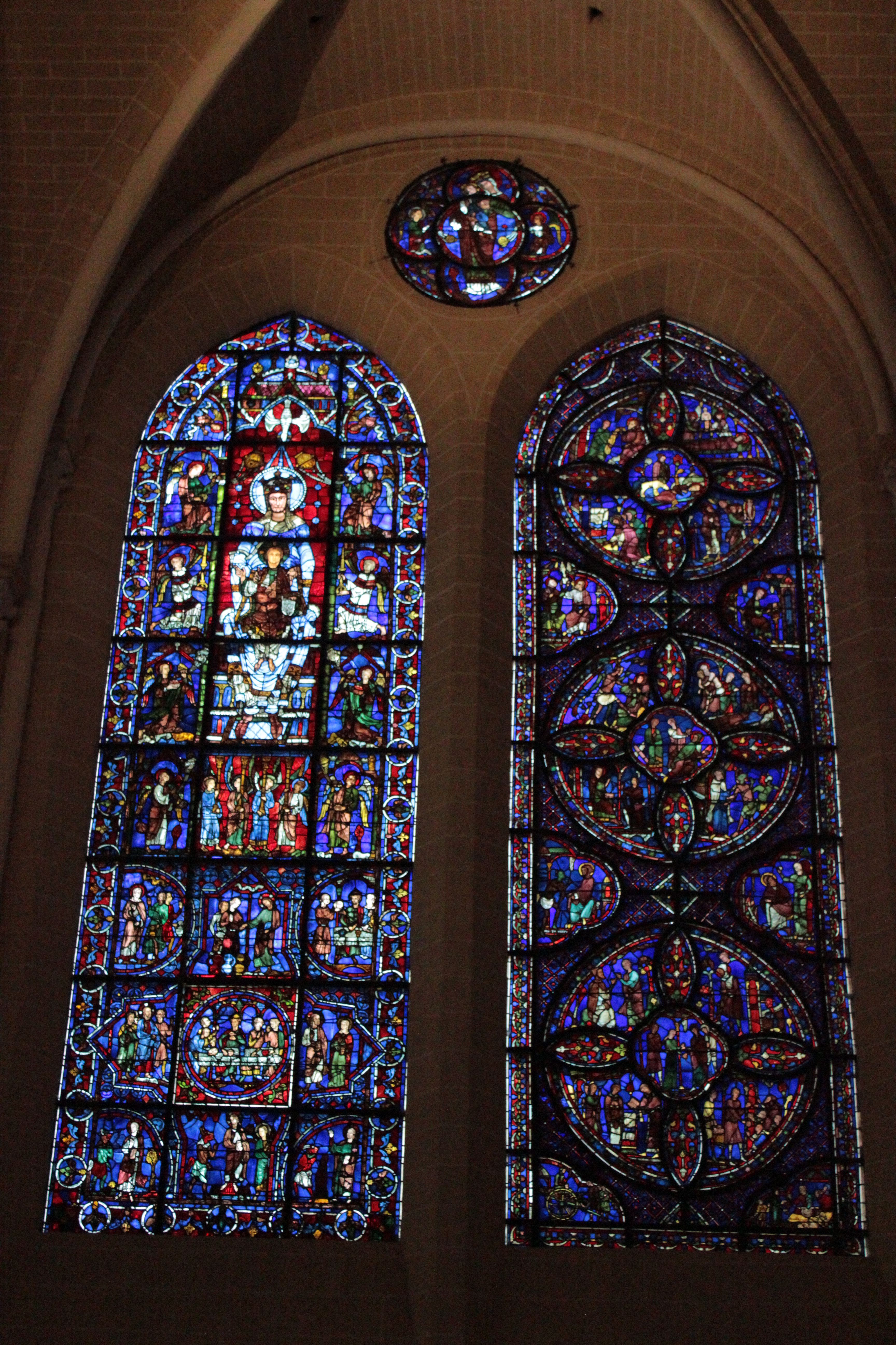 Vitrail de Chartre